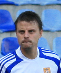 Vladmirs Kolesnicenko, Latvian football player